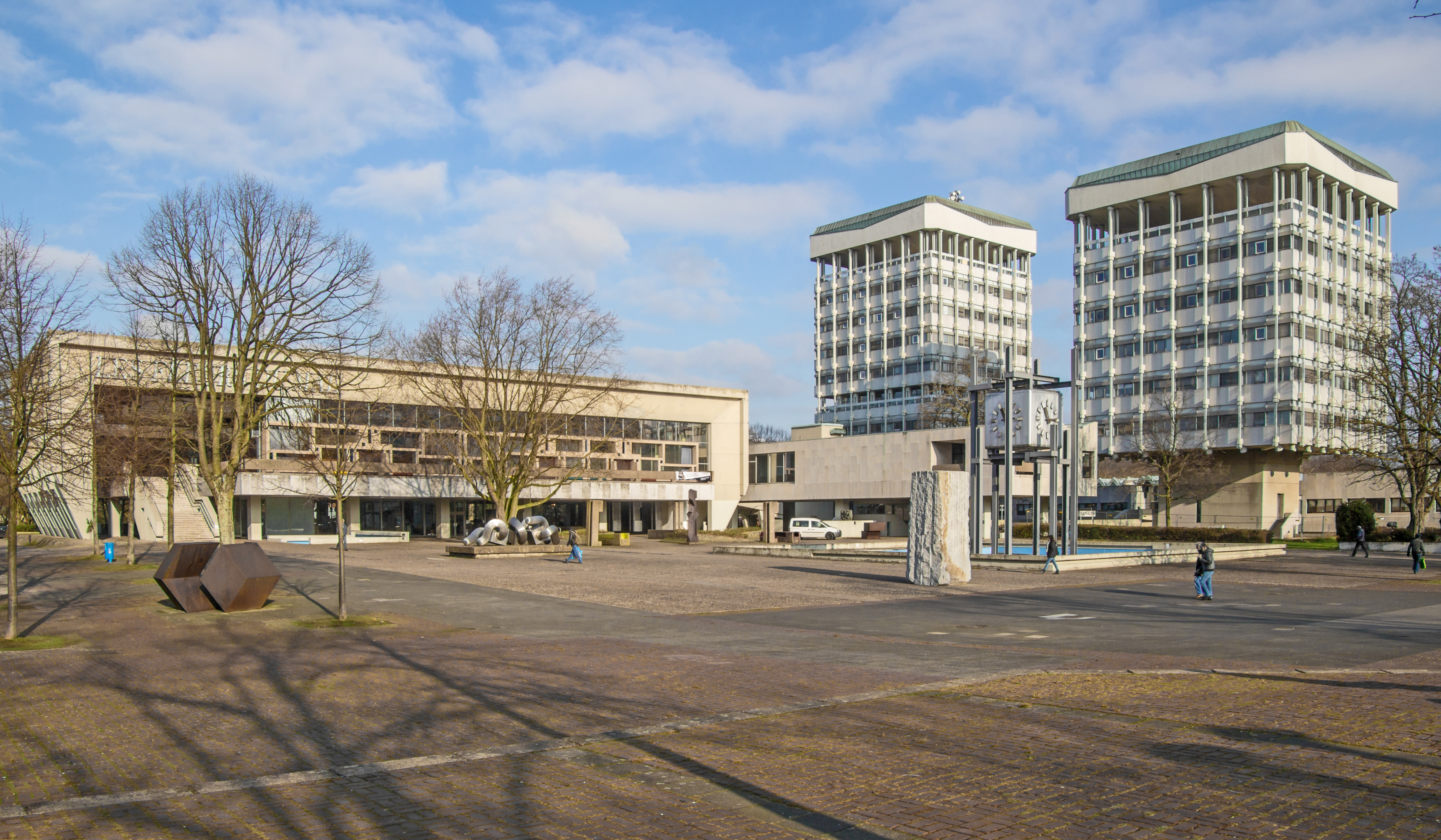 City hall of Marl - Marl, North Rhine-Westphalia, Germany